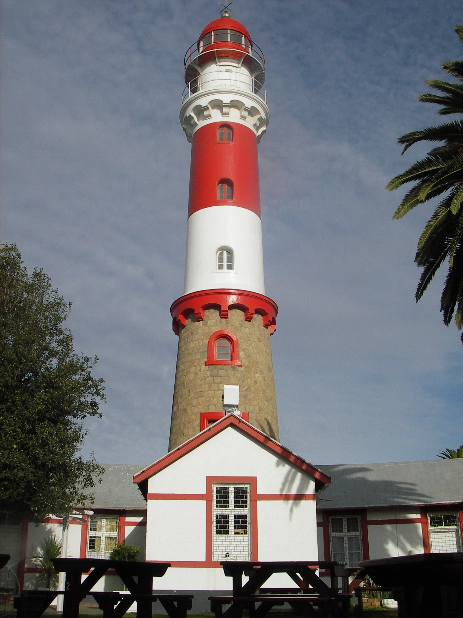 The Lighthouse at Swakopmund, NamibiaThe Lighthouse at Swakopmund